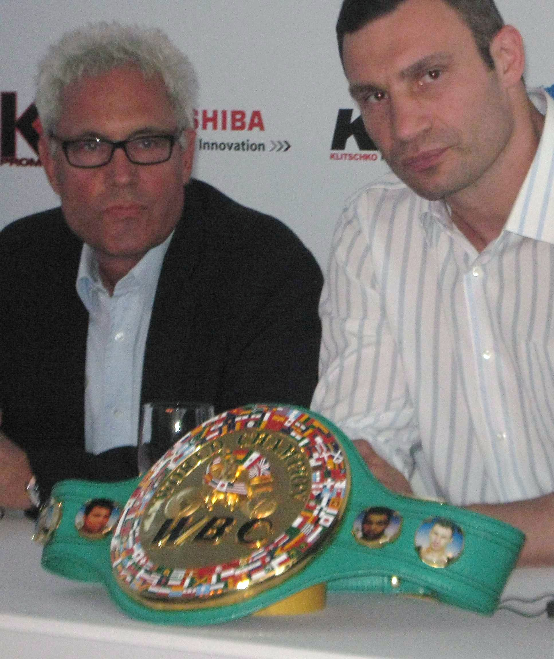 Vitali Klitschko, boxer from Ukraine (on the right) and his manager Bernd Bönte (on the left)